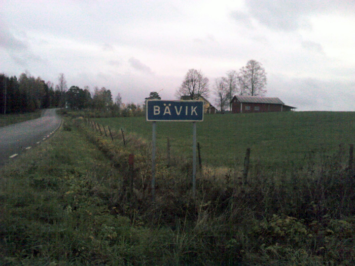 Vy över Bävik med Tomta i bakgrunden.